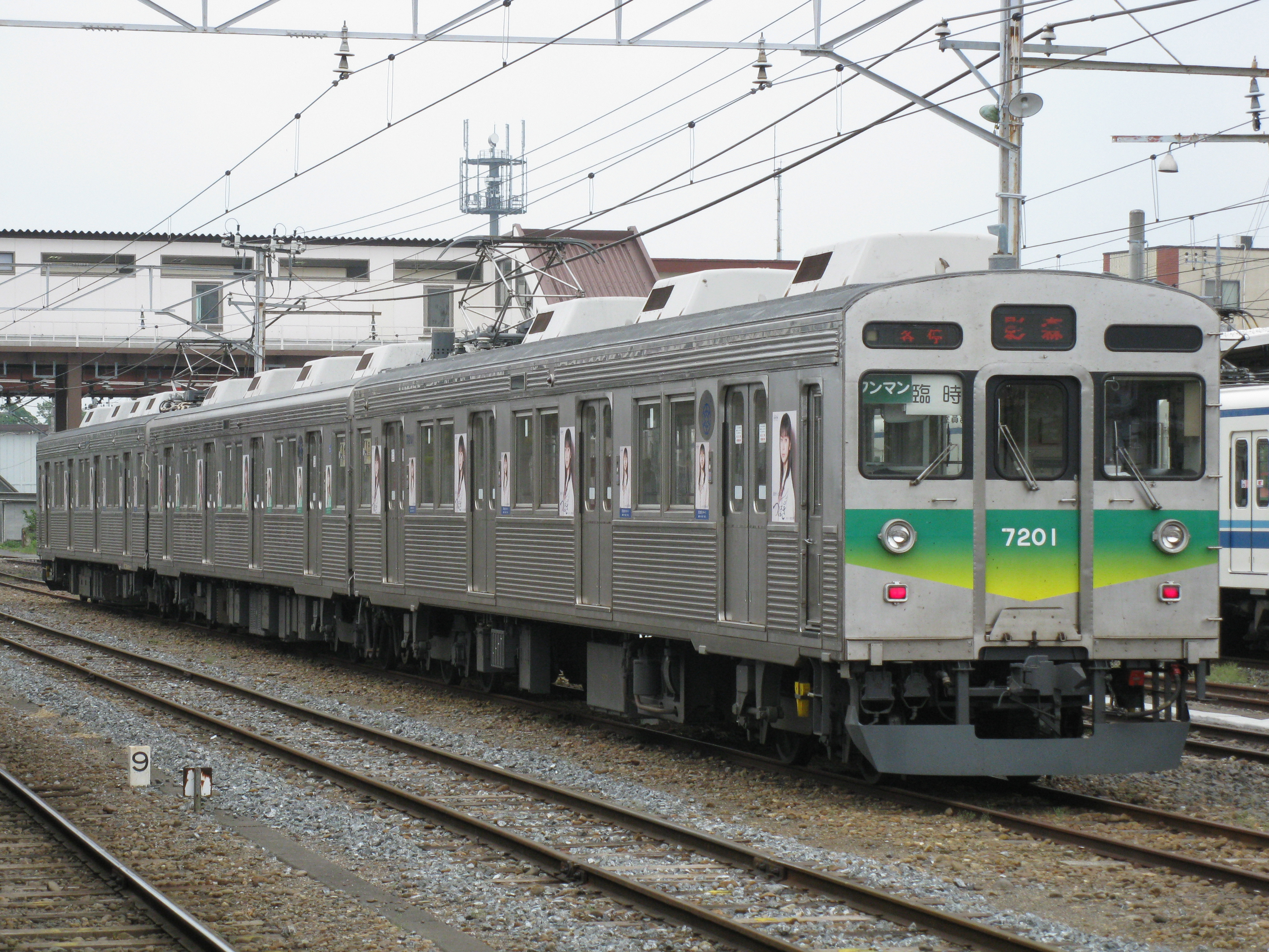 Chichibu Railway 7000 series EMU set 7001 at Yorii Station